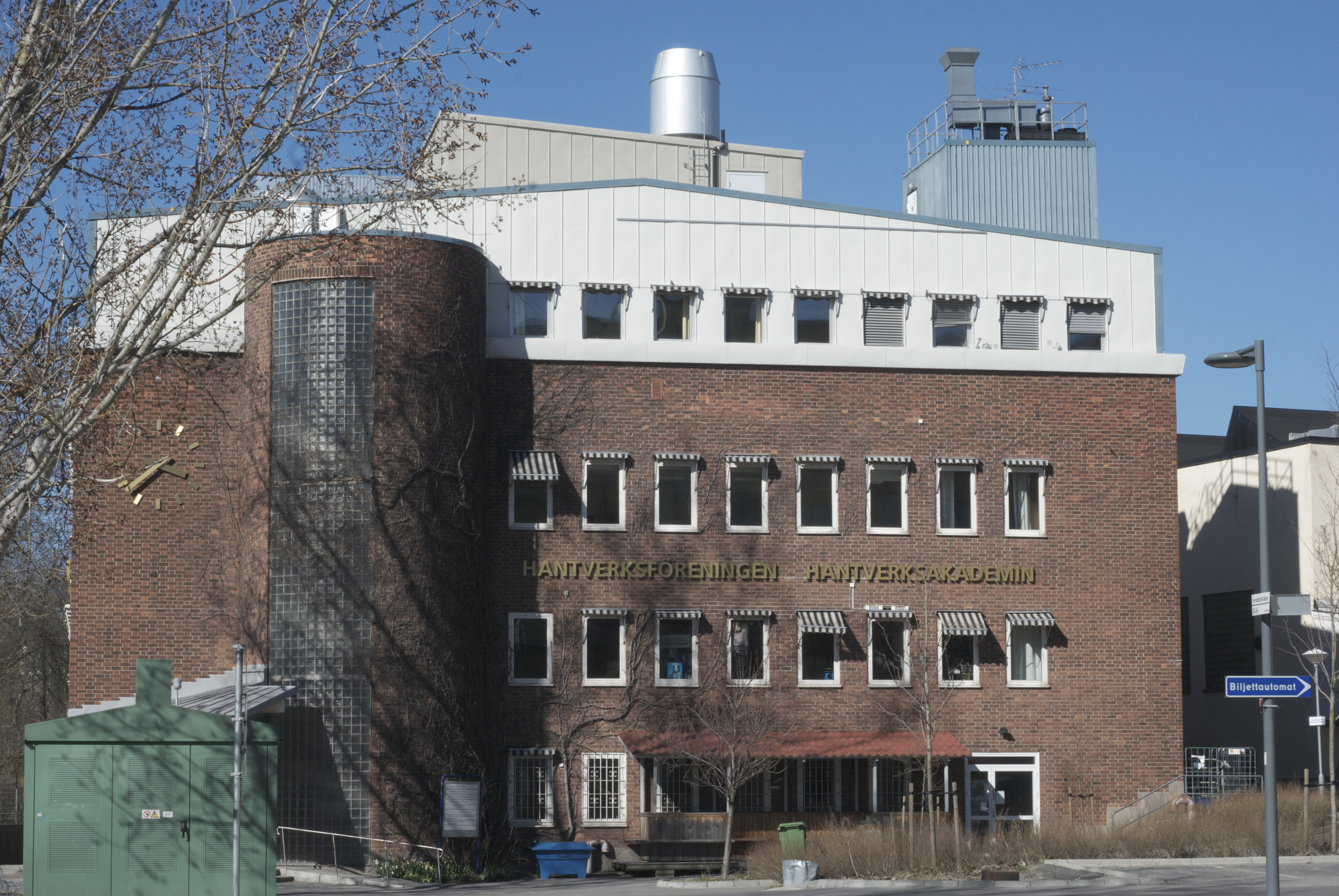 Stockholms Hantverksförening